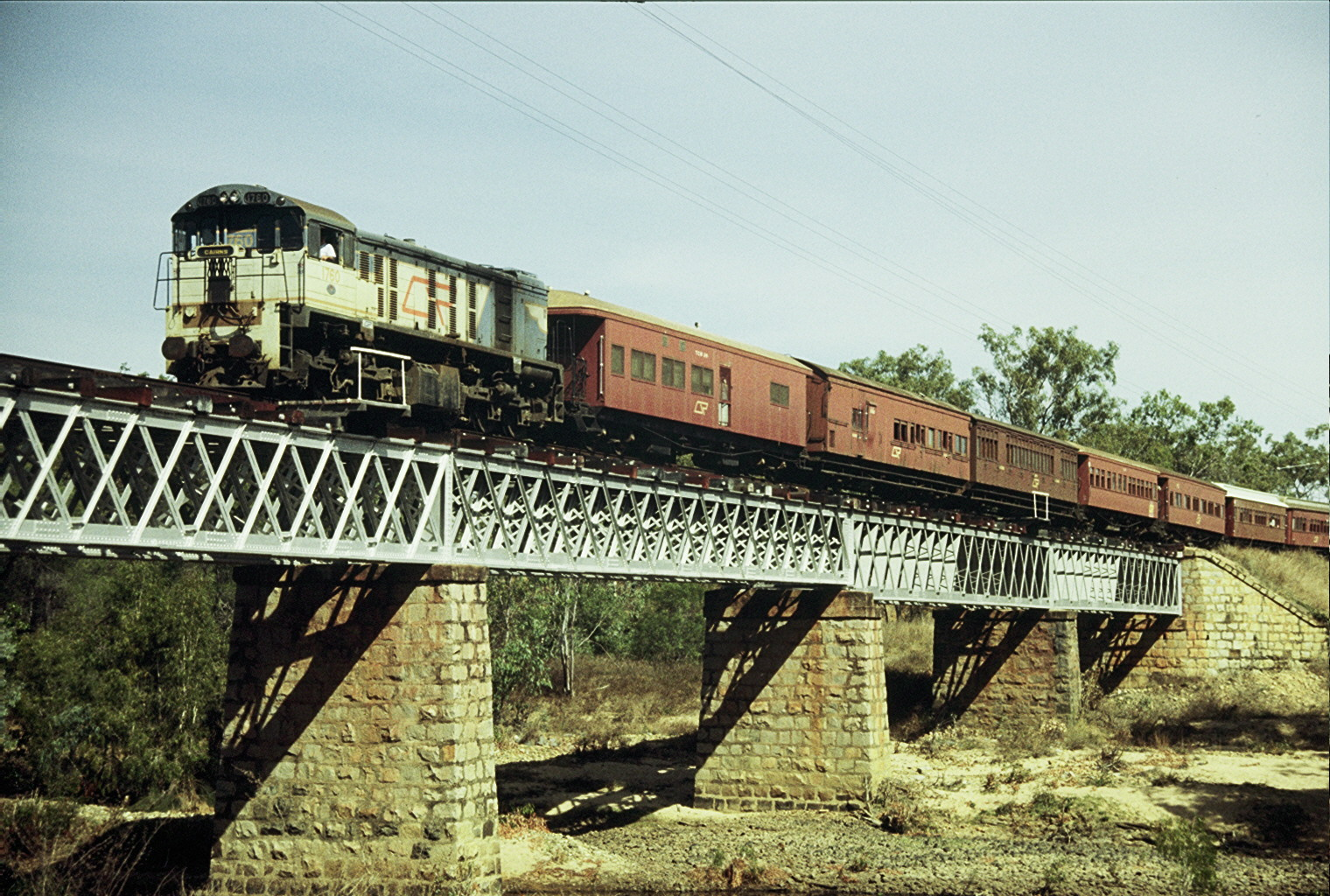 QR loco 1760 hauls a special train on the Mareeba - Almaden section of the Chillagoe line